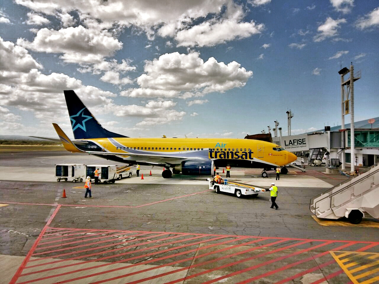 Flight TSC162 From Toronto At Gate Managua, Nicaragua